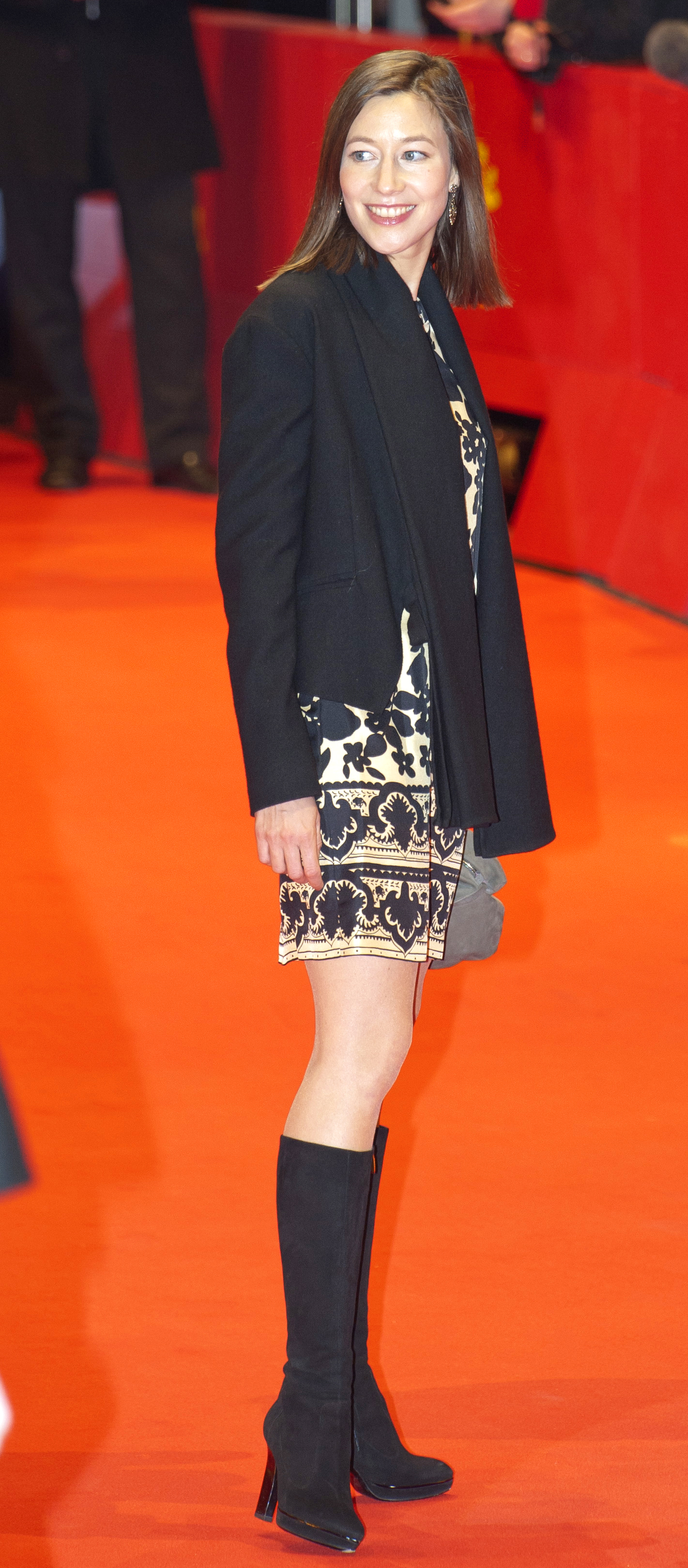 German actress Johanna Wokalek arriving at the premiere of True Grit during the Berlin Film Festival 2011